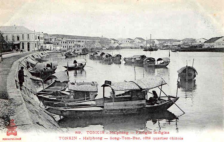 Dòng sông Tam Bạc.